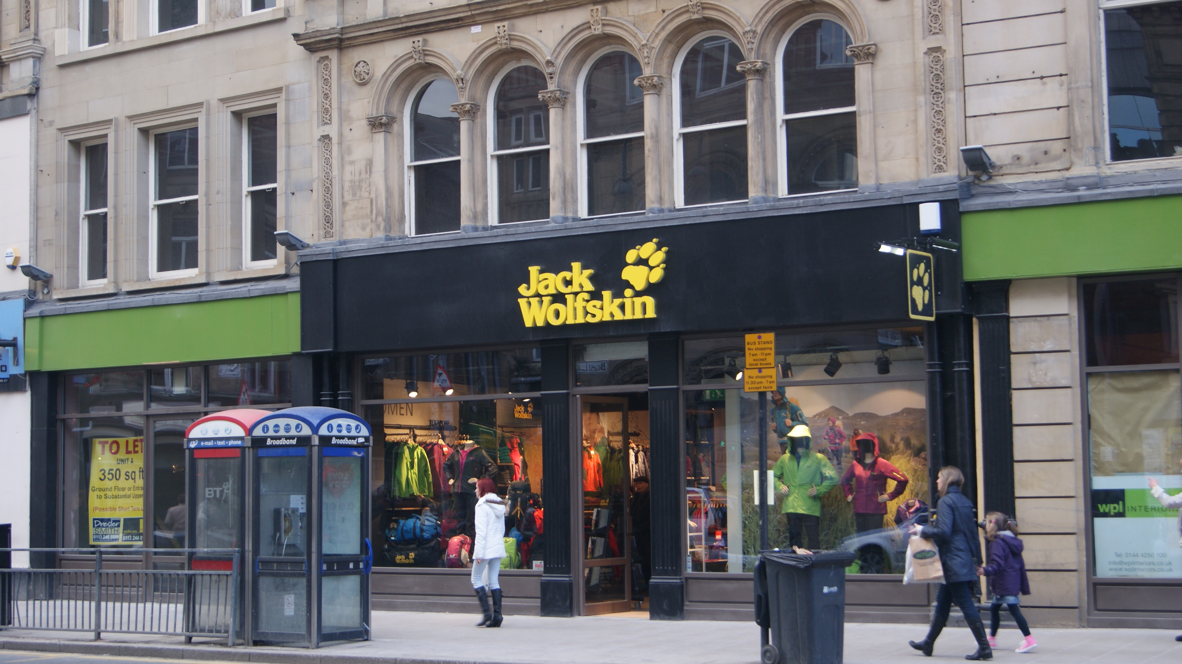 Jack Wolfskin, Boar Lane, Leeds, West Yorkshire. Taken on the afternoon of Saturday the 30th of March 2013.